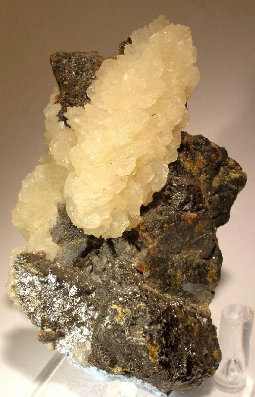 Benstonite, Sphalerite Locality: Mahoning No. 1 Mine (Minerva No. 1 Mine), Ozark-Mahoning Group, Cave-in-Rock Sub-District, Illinois - Kentucky Fluorspar District, Hardin County, Illinois, USA (Locality at ) Benstonite was one of the more rare species found in the Illinois fluorspar district. Specimens were exceptionally uncommon, and tended to go back aways, even before the mines closed in the late 1990s. This piece features a doubly-terminated benstonite cluster of 5 cm (just over two inches) perched smartly and well exposed on contrasting sphalerite matrix. A very aesthetic specimen, which is rare indeed for this material! It displays superbly and should be considered a competition level specimen. 7.8 x 4.9 x 4 cm